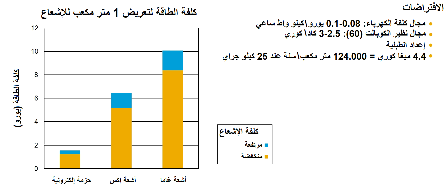 Efficiency illustration of the different radiation technologies (electron beam, X-ray, gamma rays)